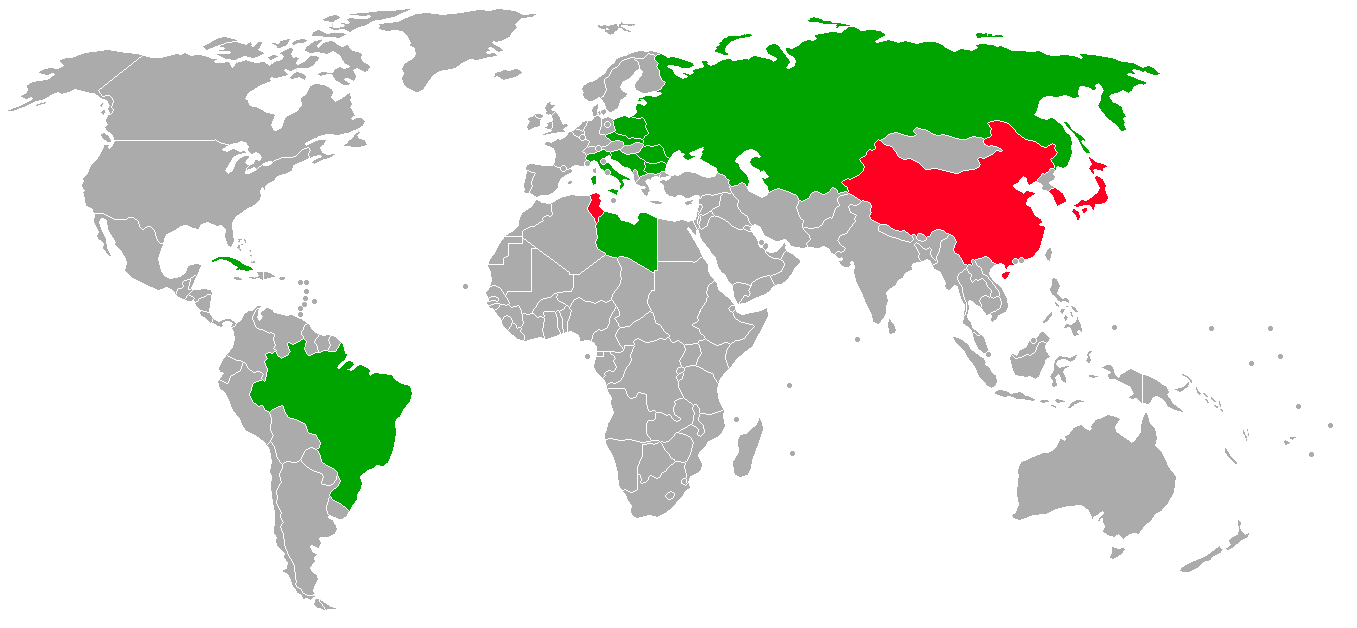 Volleyball at the 1980 Summer Olympics – Men's volleyball.png